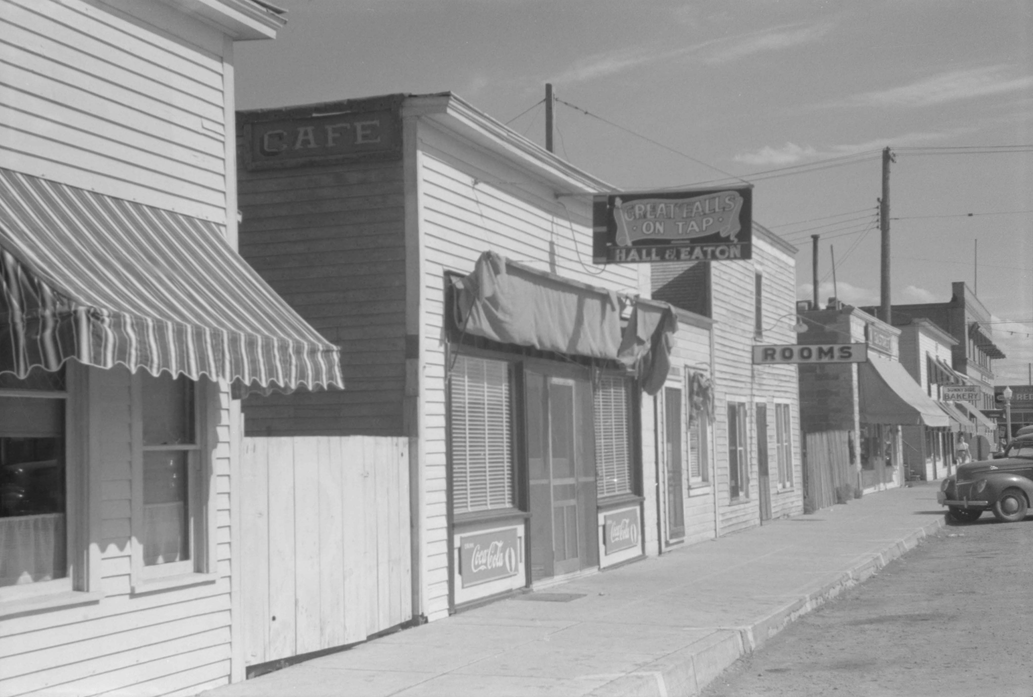 Street in Wolf Point, Montana (100 Block of 3rd Avenue South).